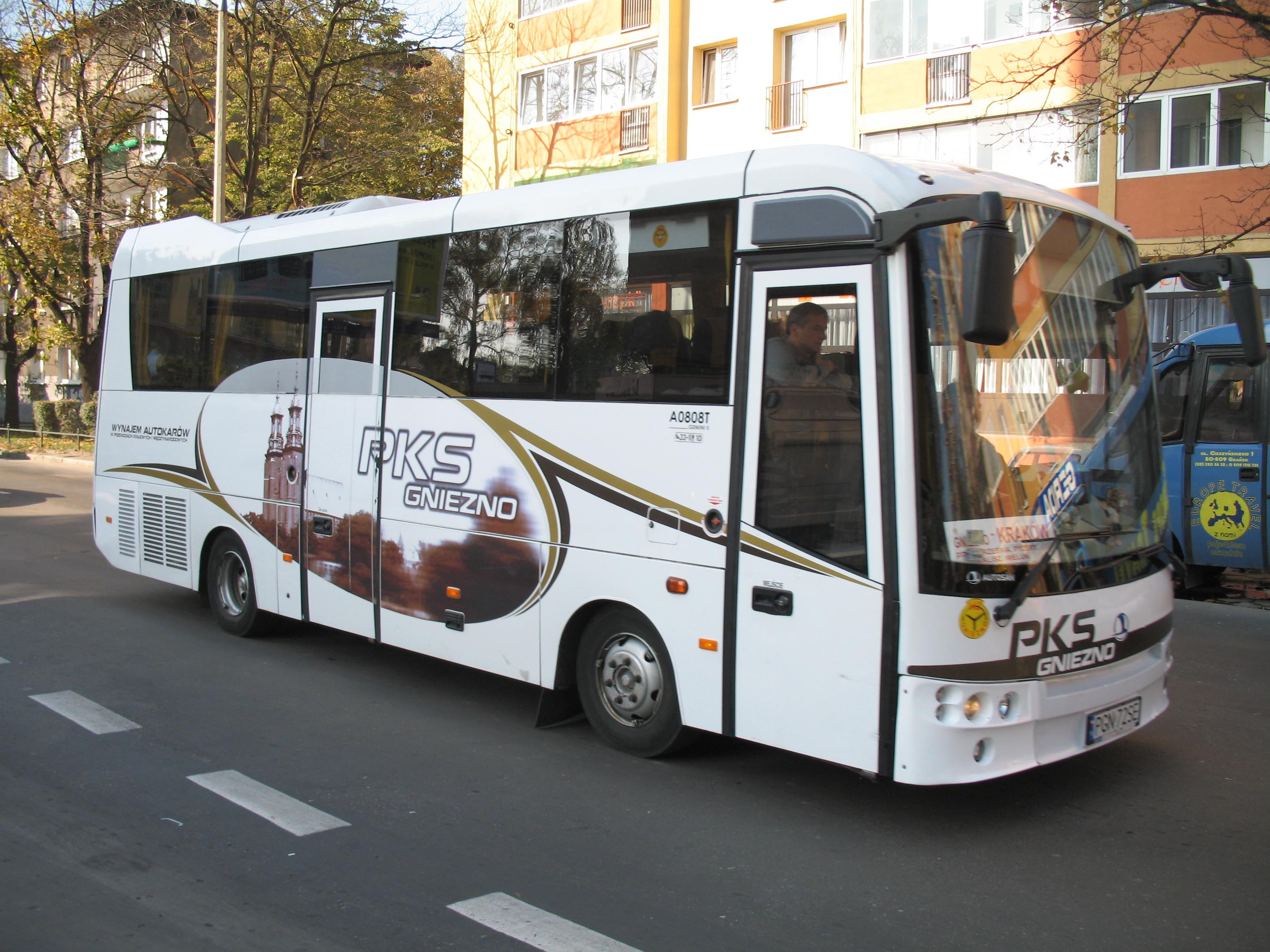 Autosan A0808T Gemini bus in Kraków, Poland. Built 2004, PKS Gniezno company.